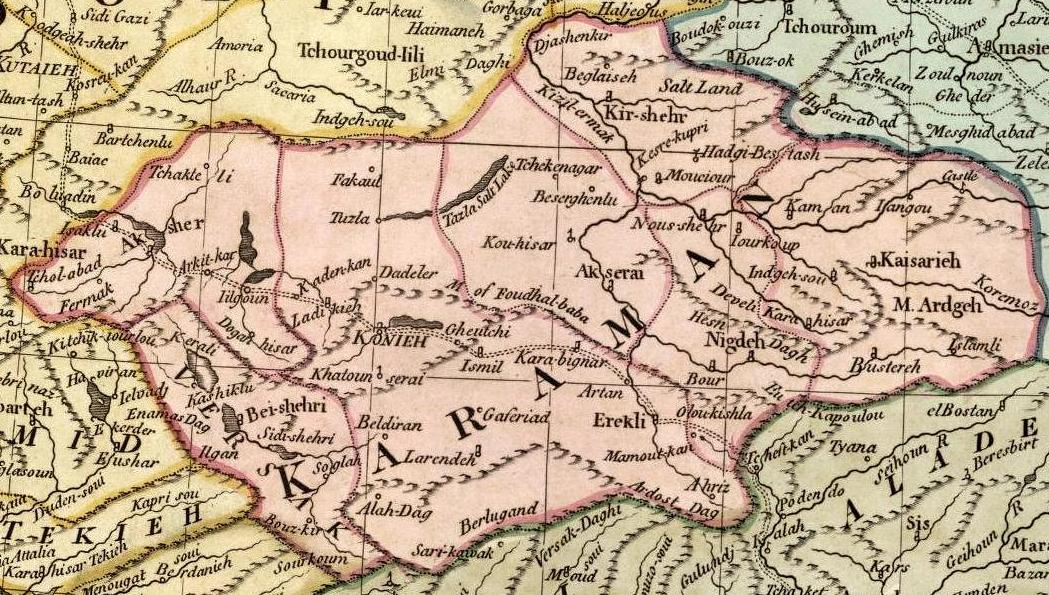 A new map of Turkey in Asia by Monsr. d'Anville, first geographer to the most Christian King with several additions. London, published by Laurie & Whittle, no. 53 Fleet Street as the Act directs, 12th May, 1794.